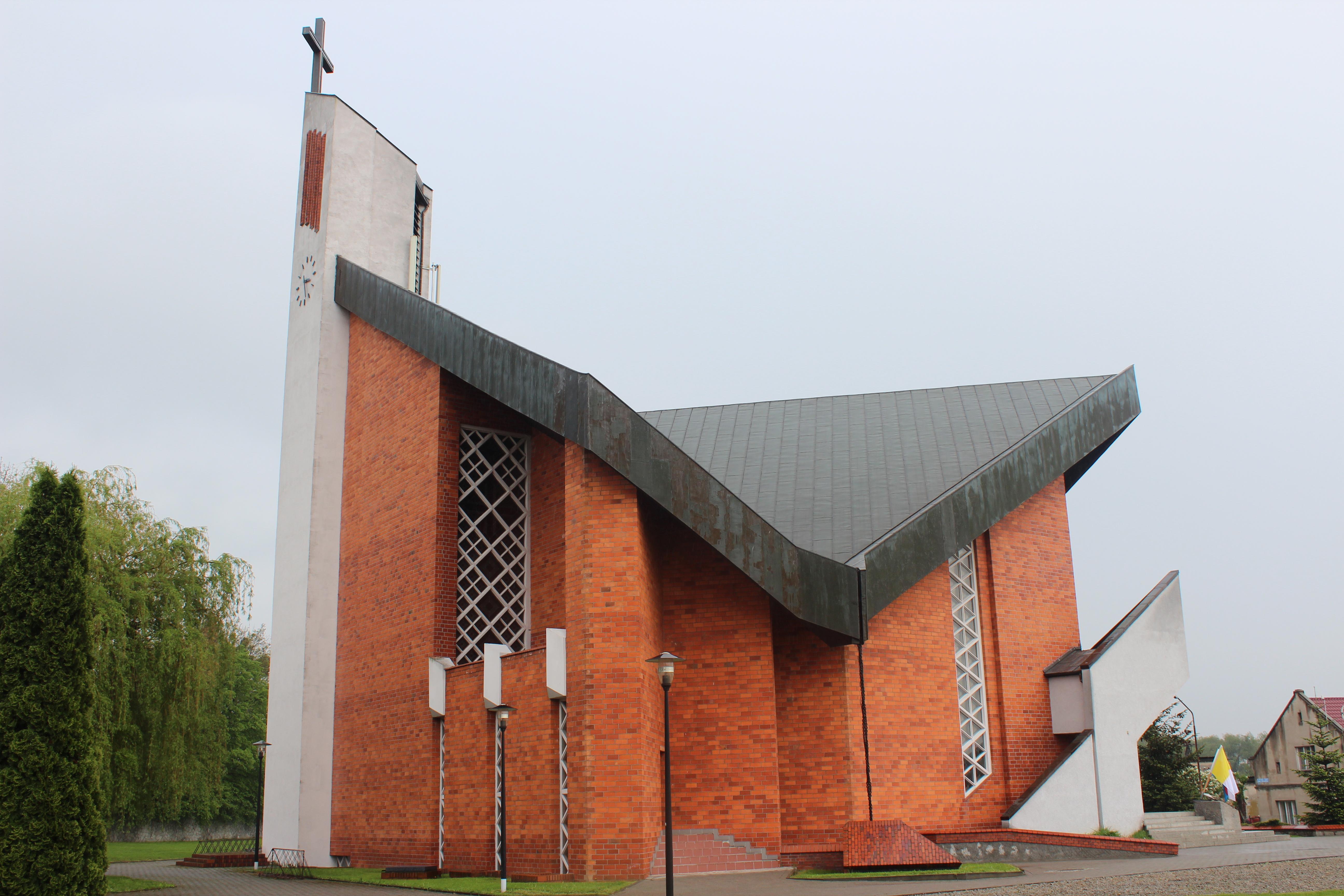 Church in Czernica, Wroclaw County